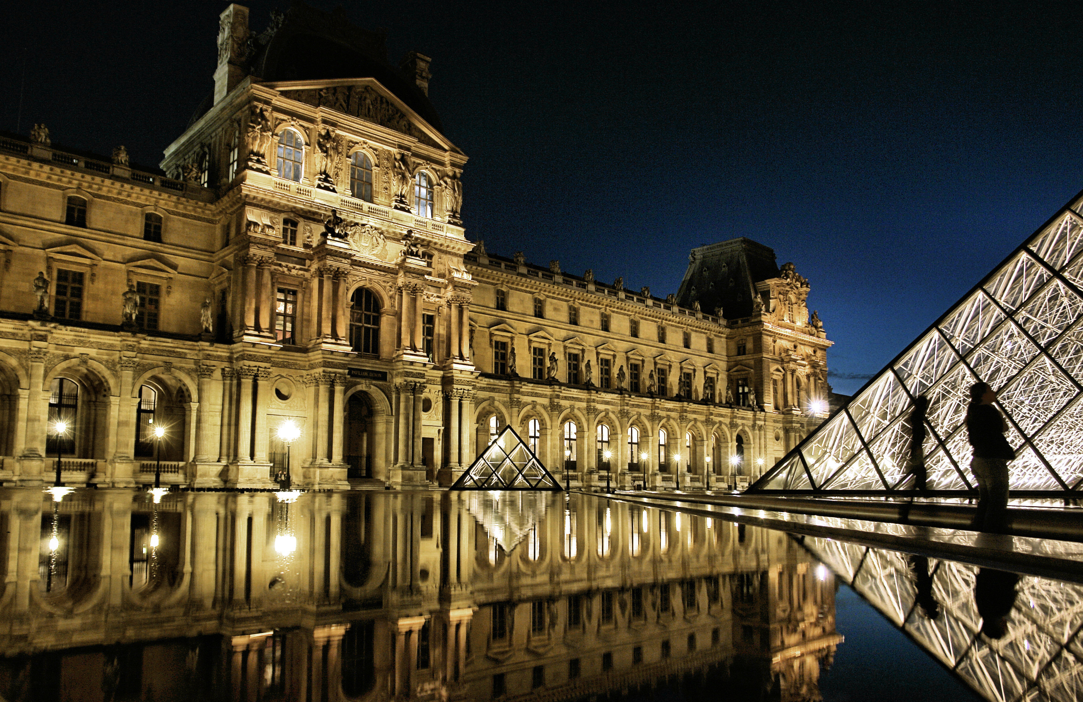 View on Louvre